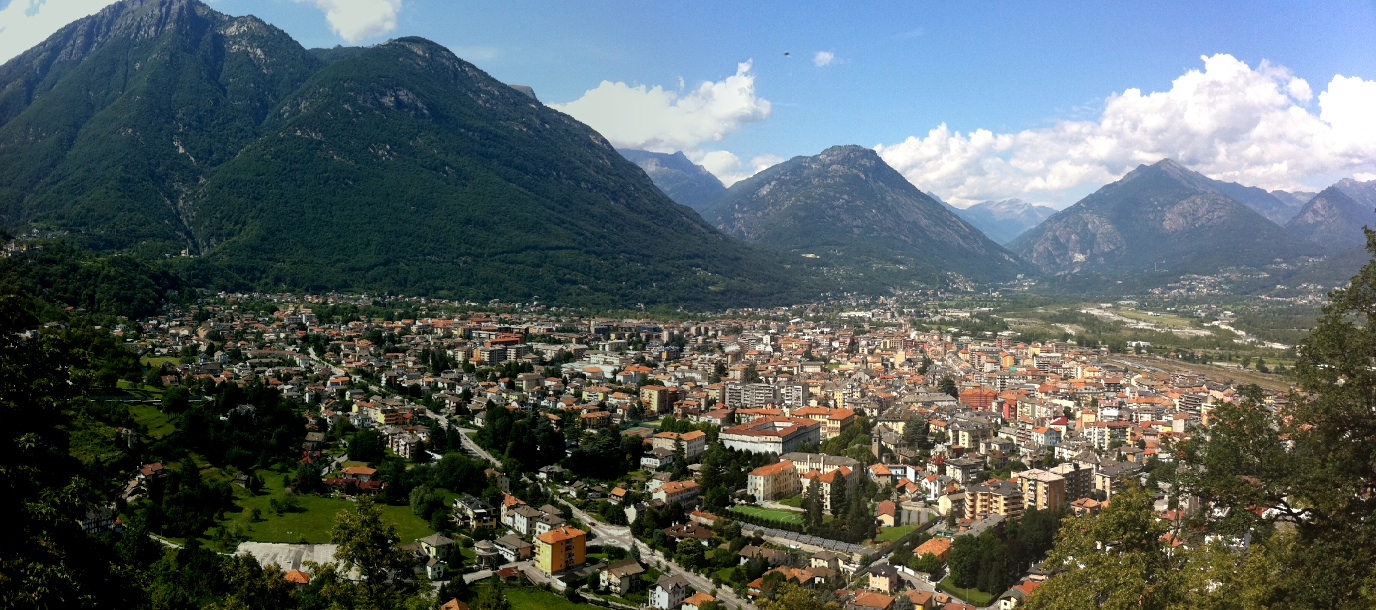 Domodossola's view from Sacro Monte Calvario